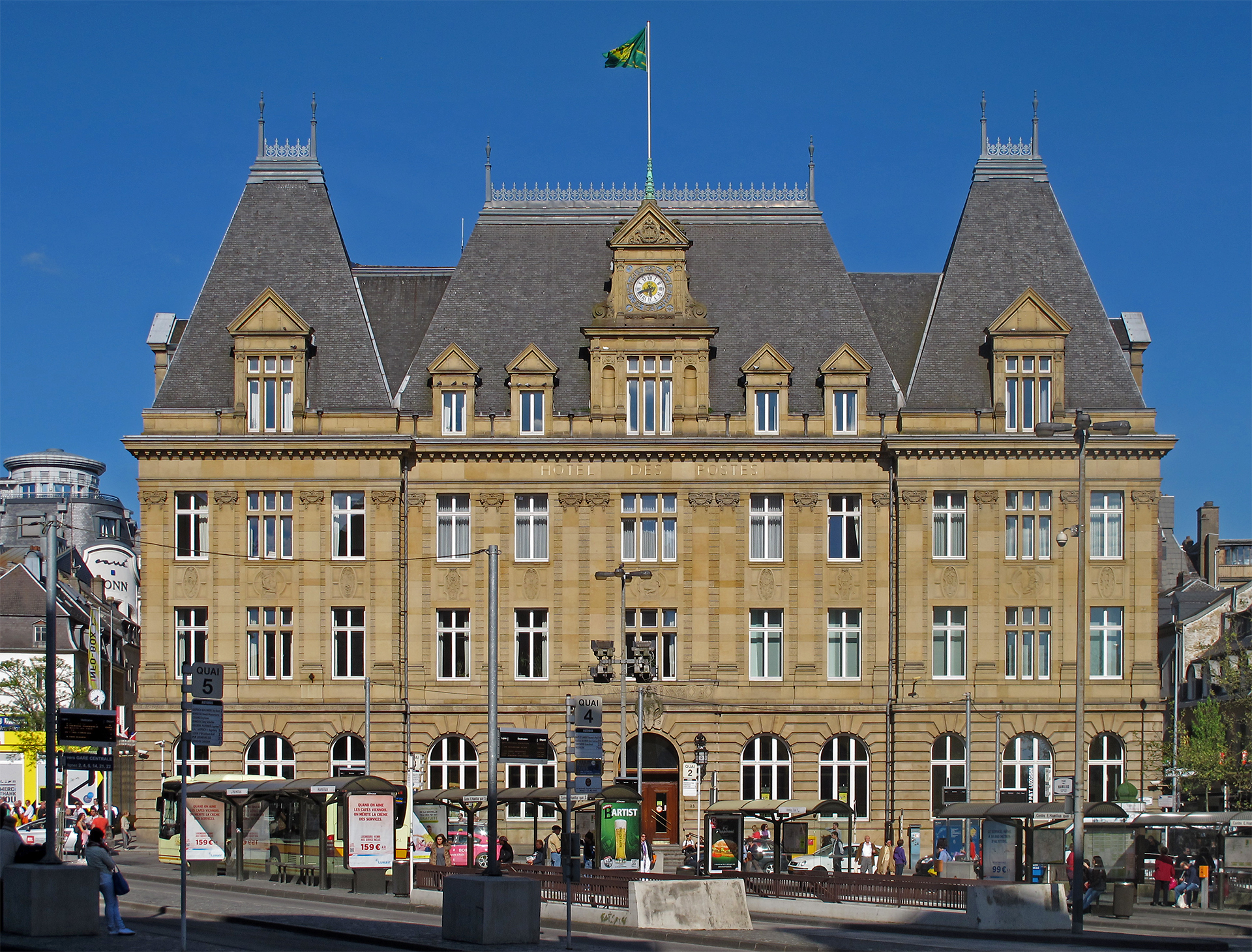 Hôtel des Postes on the Aldringen-Place in the City of Luxembourg